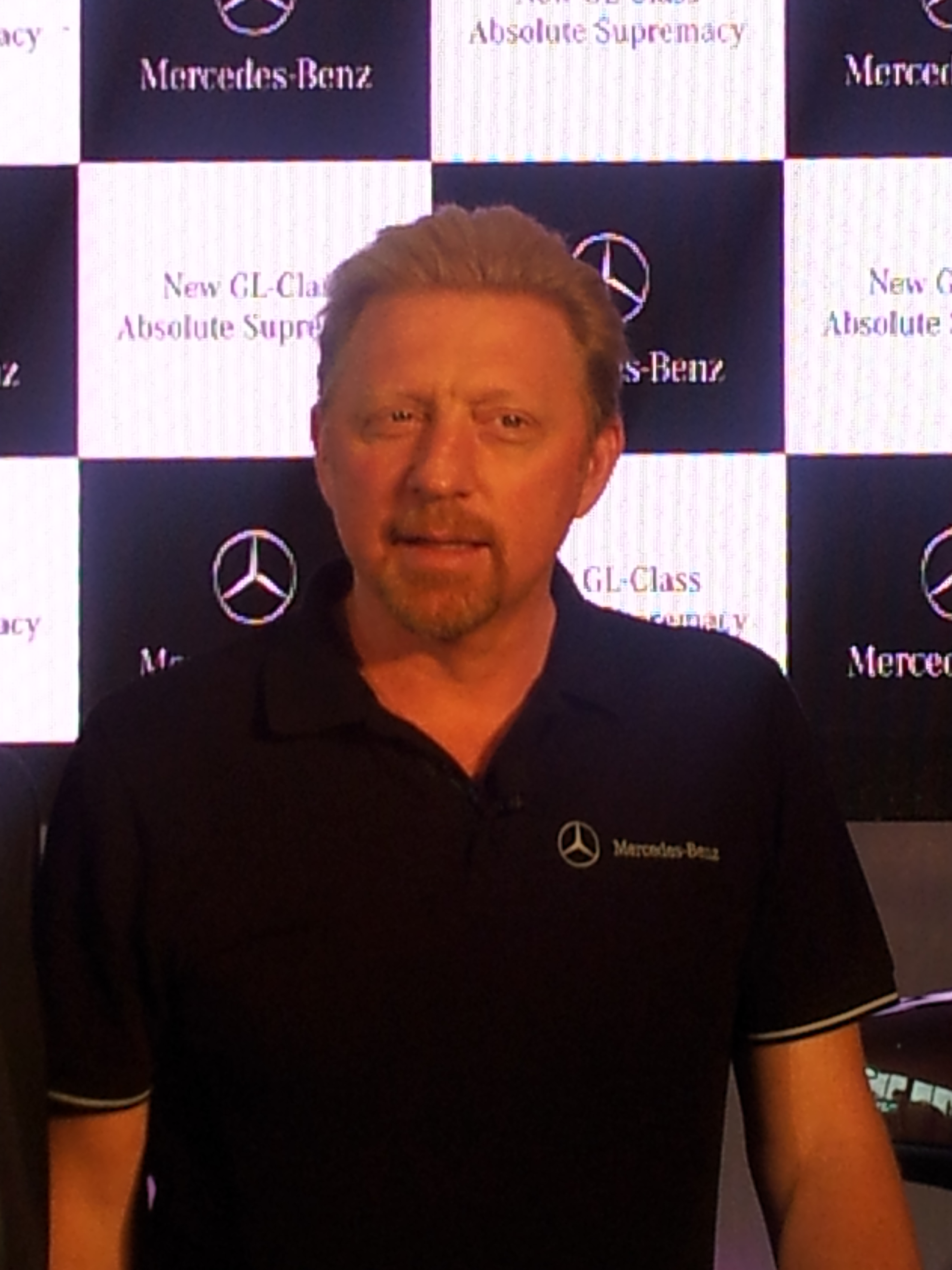 Boris Becker at Mercedes Benz GL class Launch in Bangalore, India